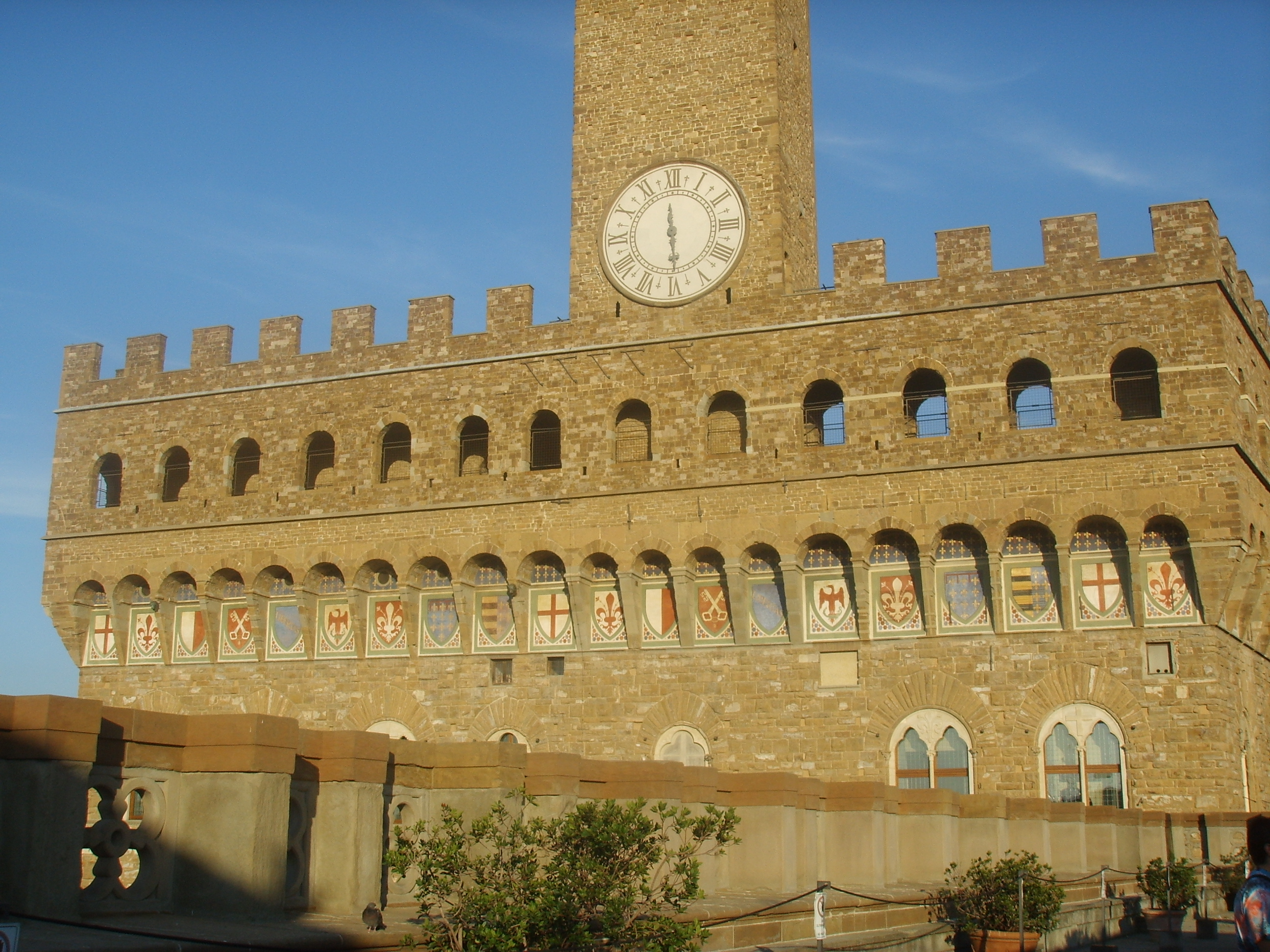 Palazzo Vecchio coats of arms in Florence, italy